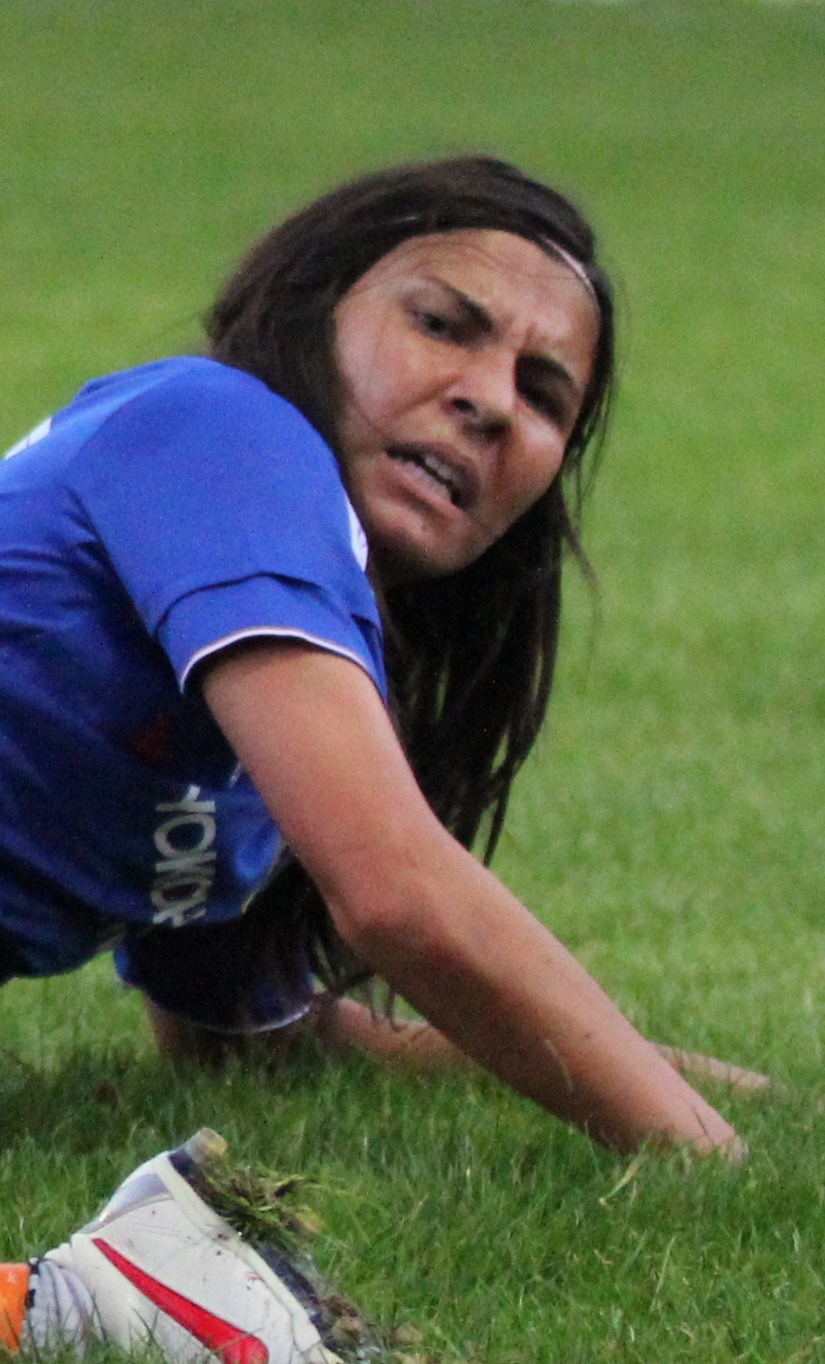 Megan McKeag of Millwall Lionesses successfully tackles Ana Borges of Chelsea for the ball.